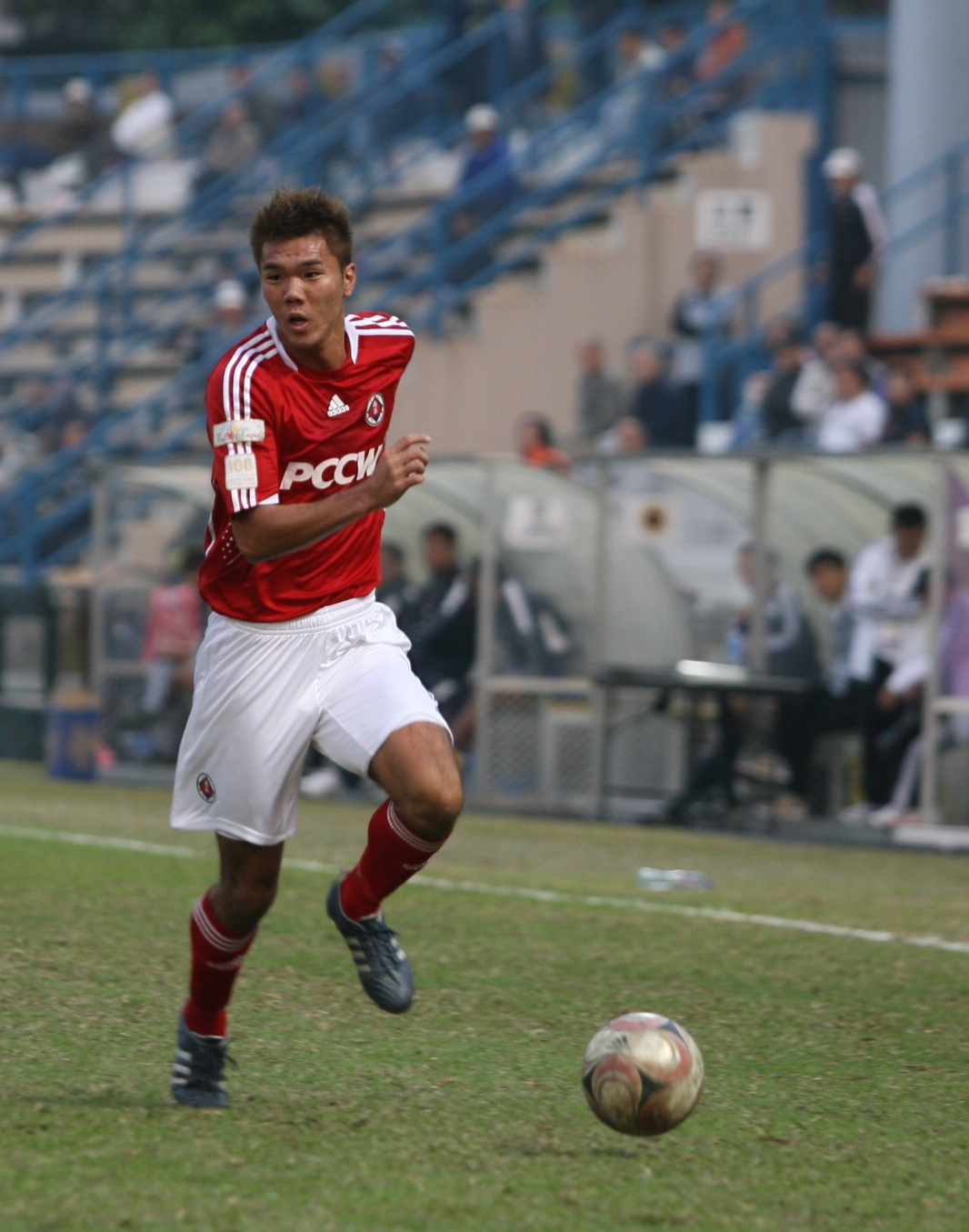 chan siu ki